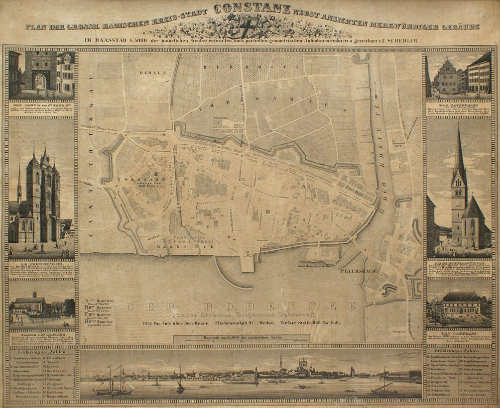 Schaedler, Johann Georg (auch Schedler, Johann Georg): Lithographie, Stadtplan von Konstanz, um 1830